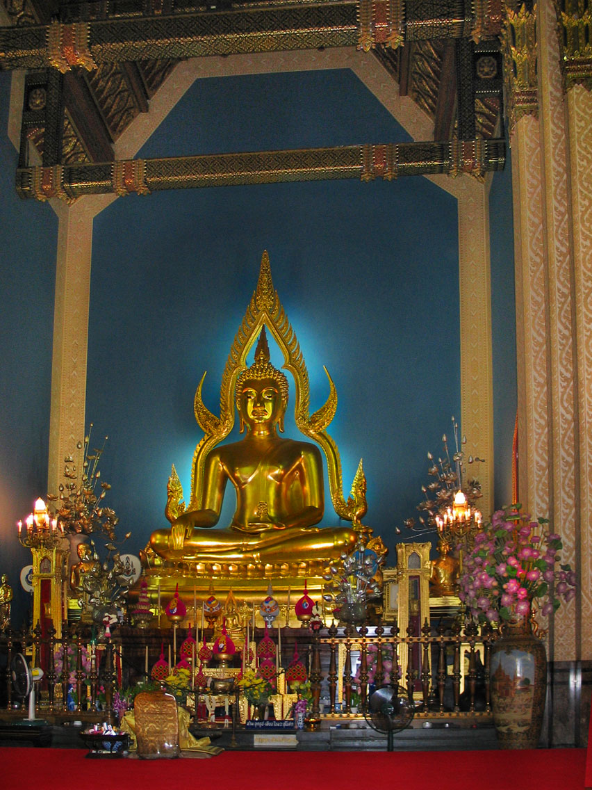 Phra Puttha Jinnarat, main altar with seated buddha, of Wat Benchamabophit (Marble Temple), Bangkok, Thailand .